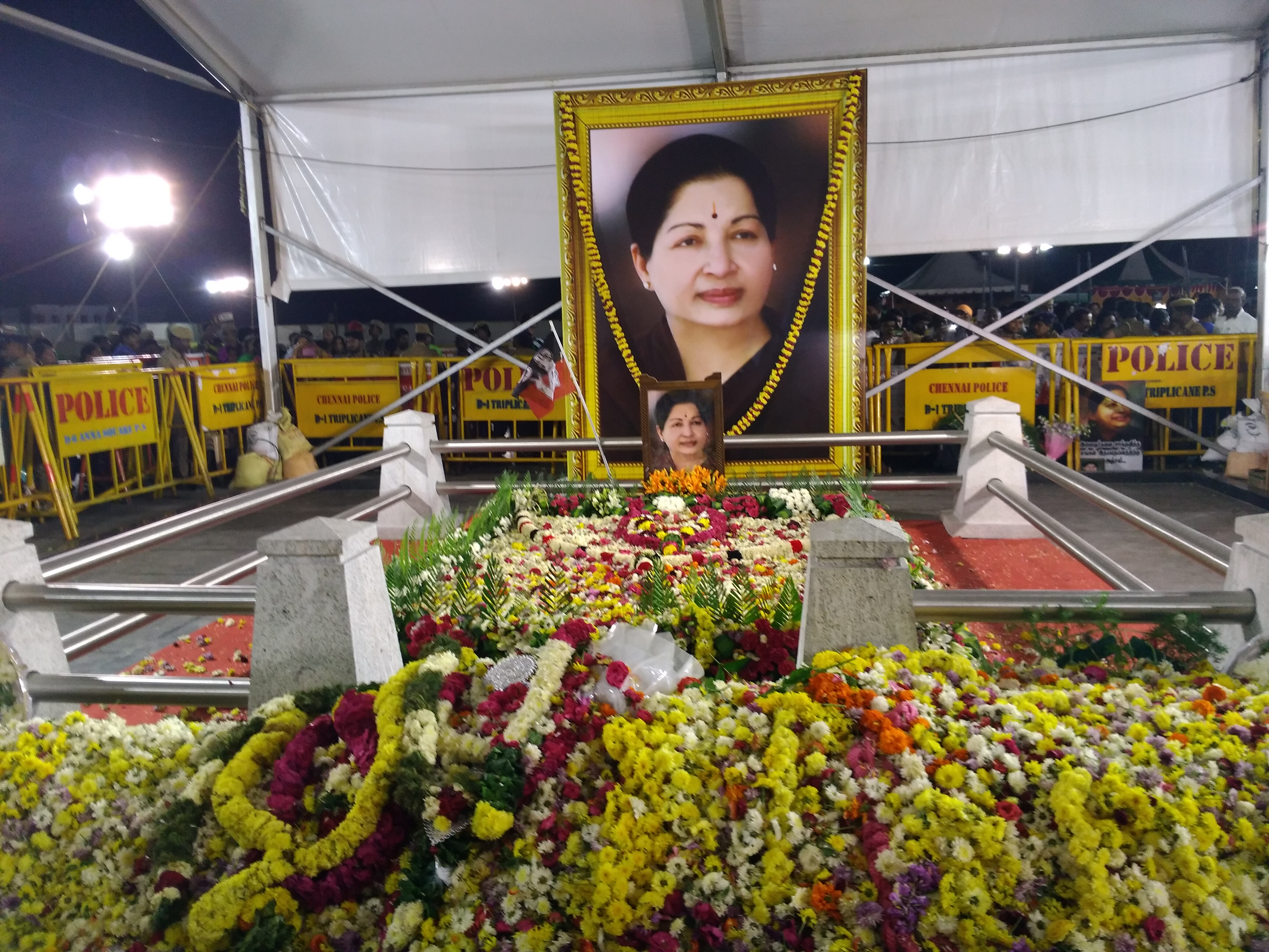 Tamilnadu's former chief minister selvi J.Jeyalalitha's memorial